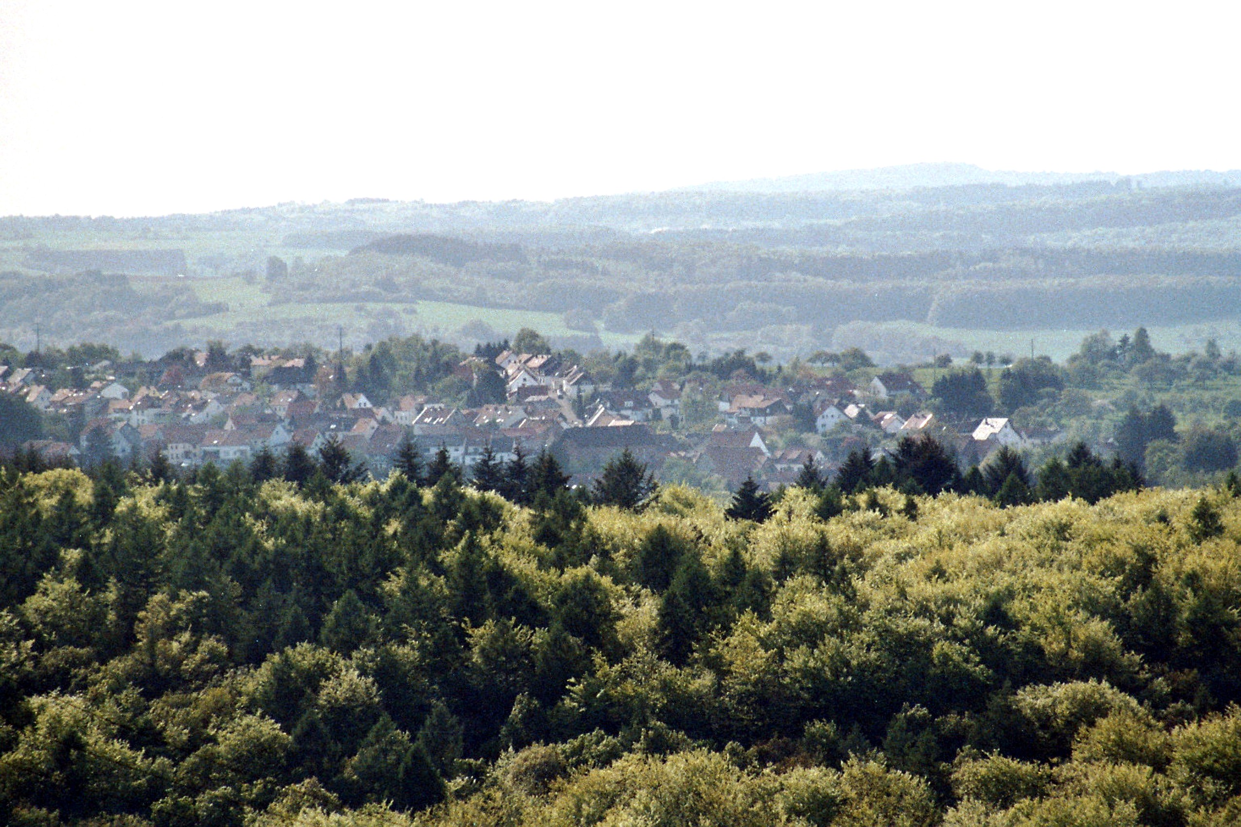 Steinbach am Glan, view to the village